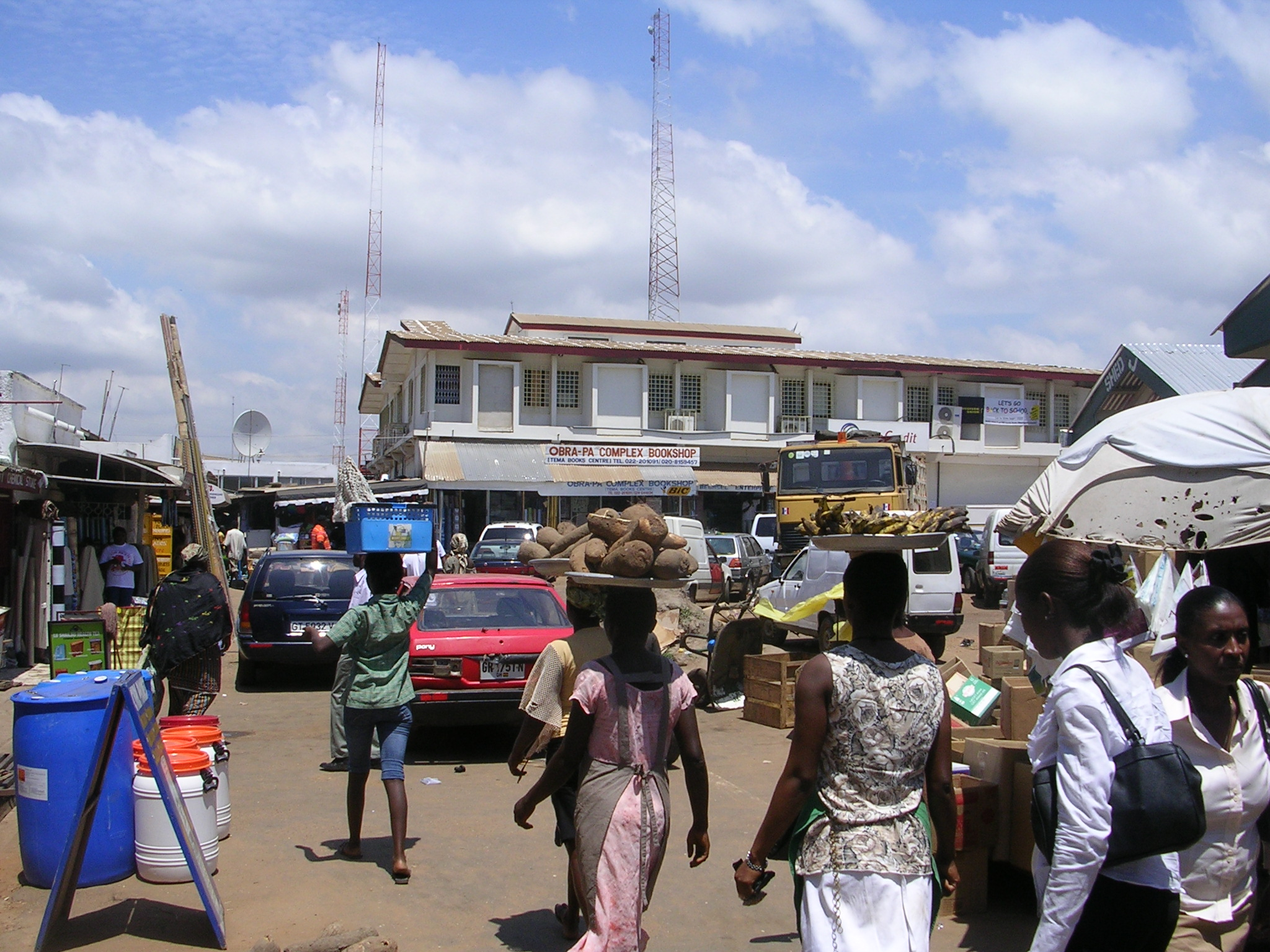 The trading market.